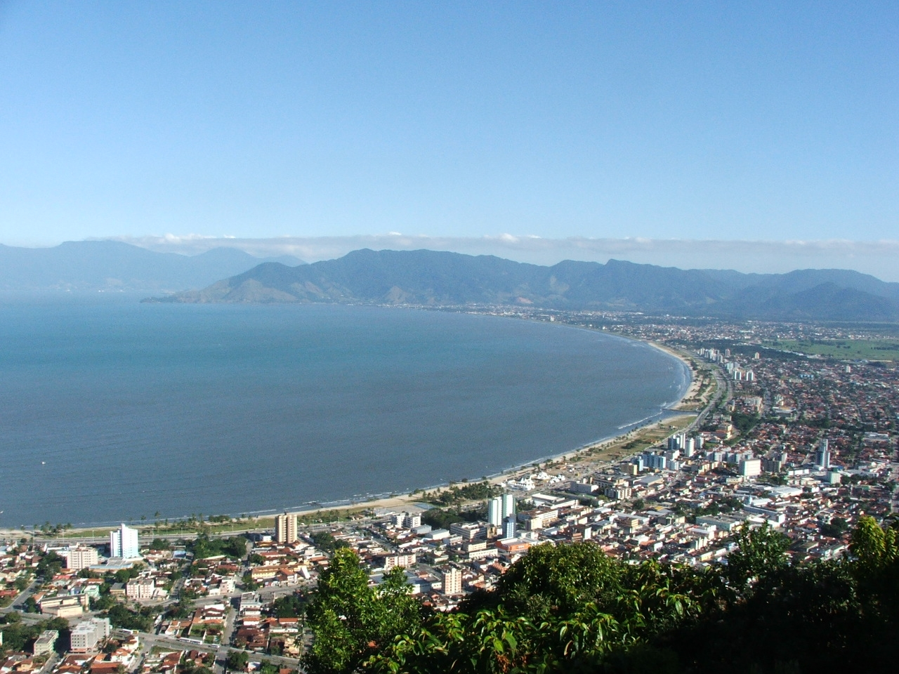 View Caraguatatuba